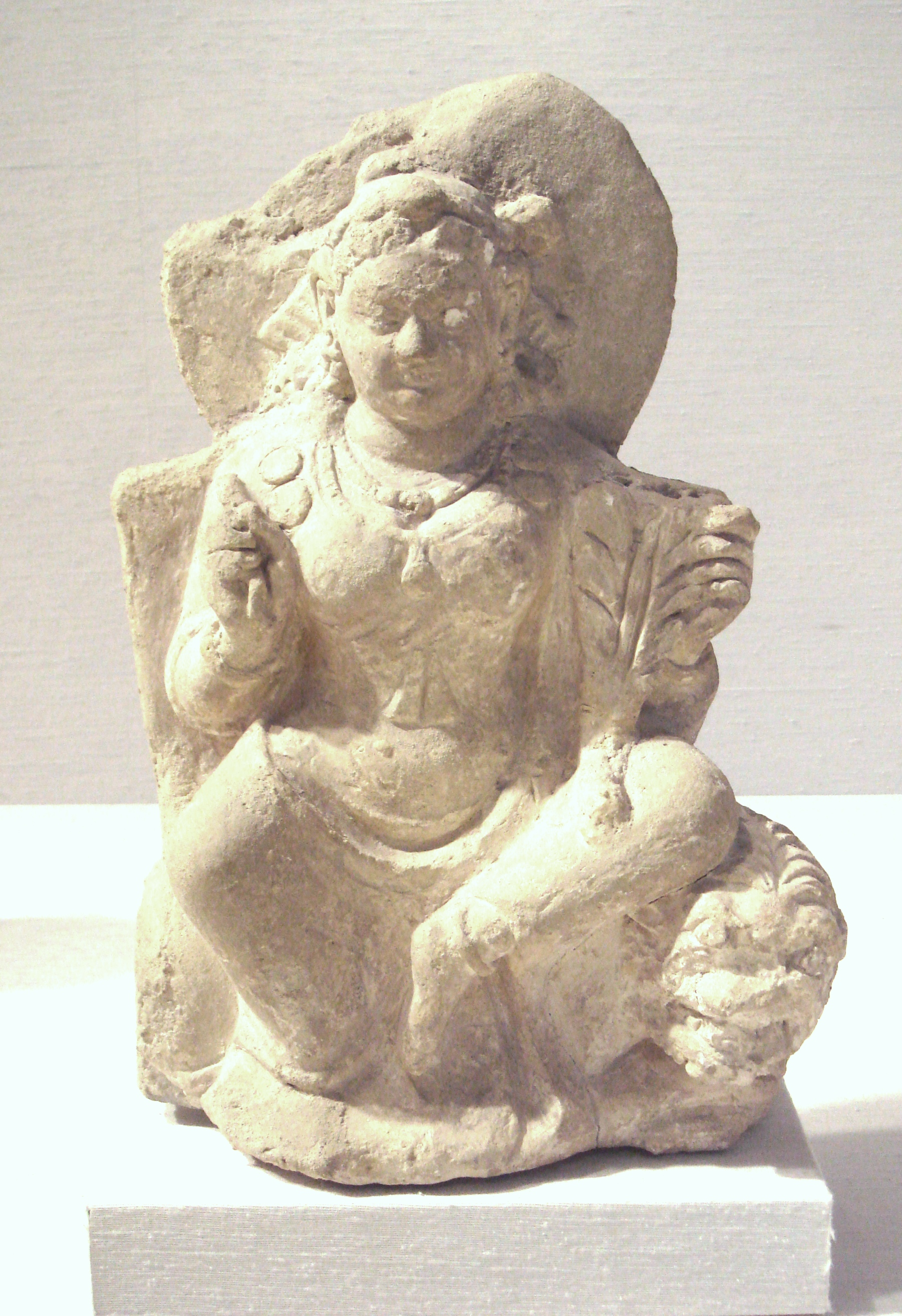 Goddess_Nana_Afghanistan_5-6th_century.